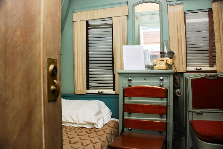 The Ferdinand Magellan Presidential Railcar at the Gold Coast Railroad Museum - Miami Sept 29, 2007